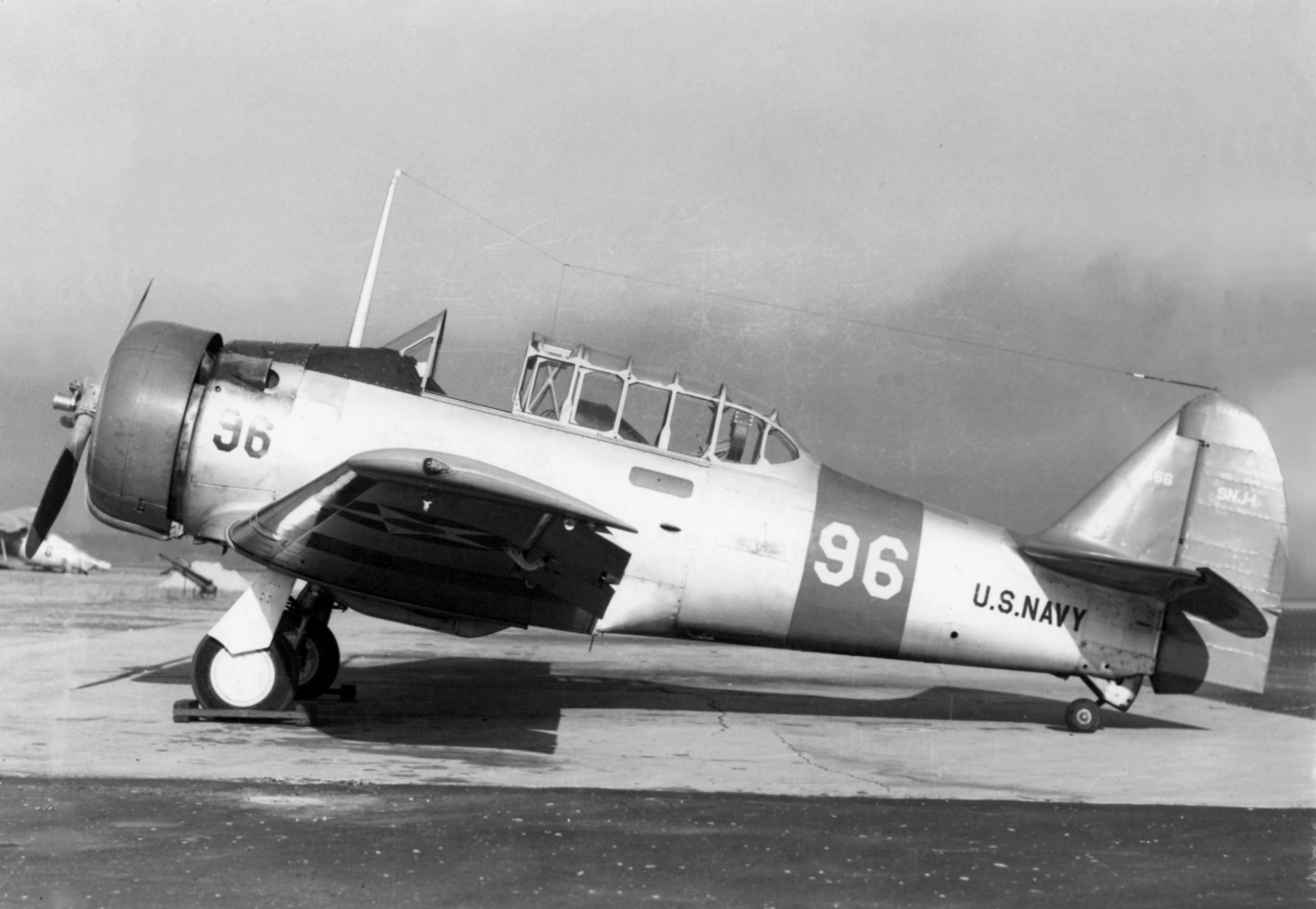 A U.S. Navy North American SNJ-1 Texan (BuNo 1566) at Naval Air Station Pensacola, Florida (USA).